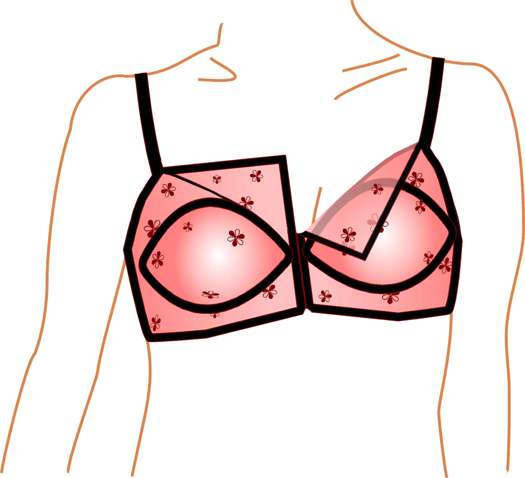 Shutter bra, common in 1940s and 1950s. Often closed with a front hook. An extra flap of cloth is attached above each cup. These flaps can either be left folded down to expose the cleavage like an ordinary bra or they can be hook together to hide the cleavage as would a camisole.